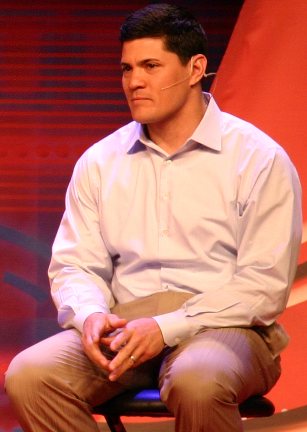 Ron Jaworski, Trey Wingo, Mark Schlereth and Tedy Bruschi at Inside ESPN NFL Flive in the Premiere Theater during ESPN The Weekend, February 26, 2010